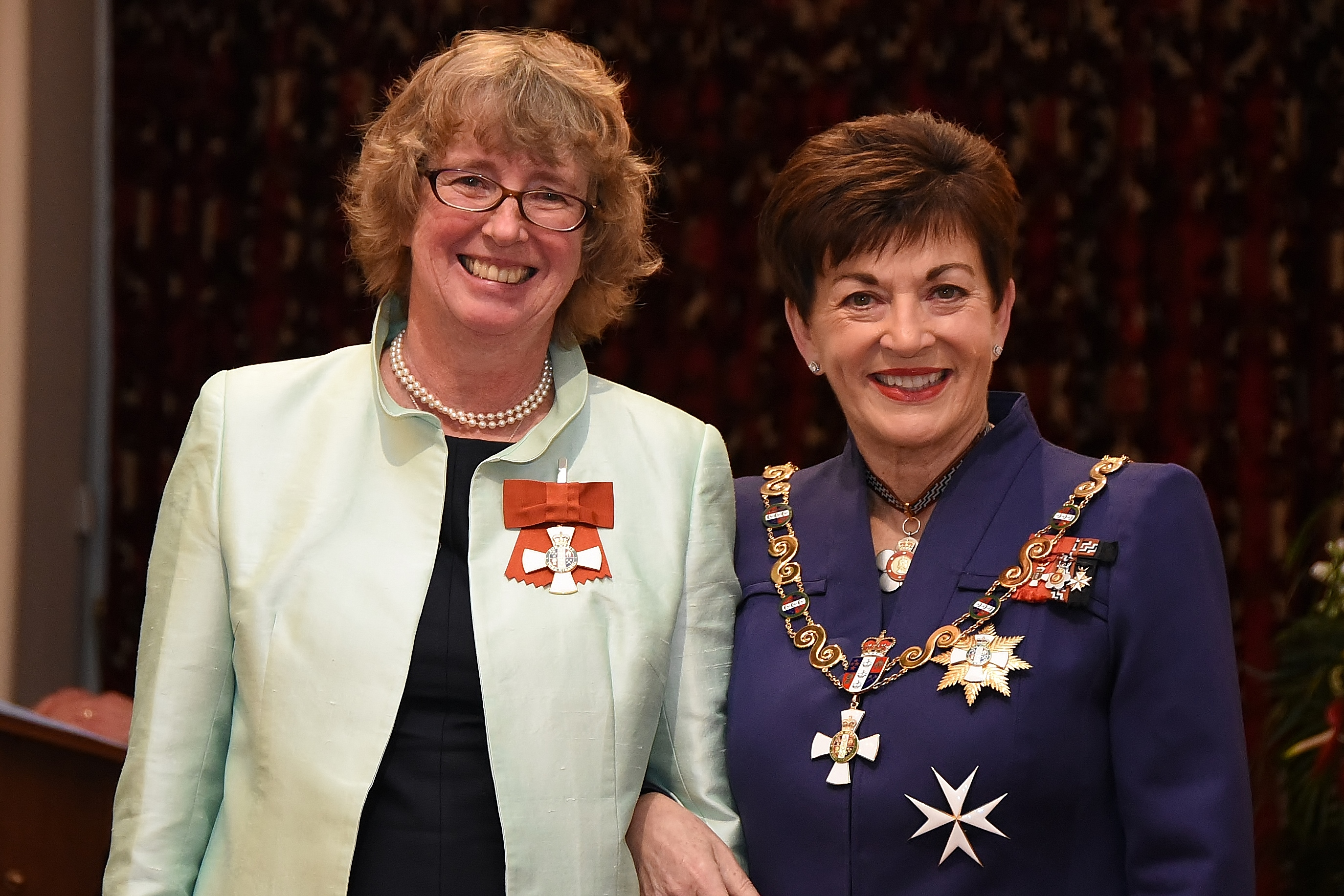 Lyn Provost (left), of Upper Hutt, after her investiture as CNZM, for services to the State, by the governor-general, Dame Patsy Reddy, on 31 August 2017